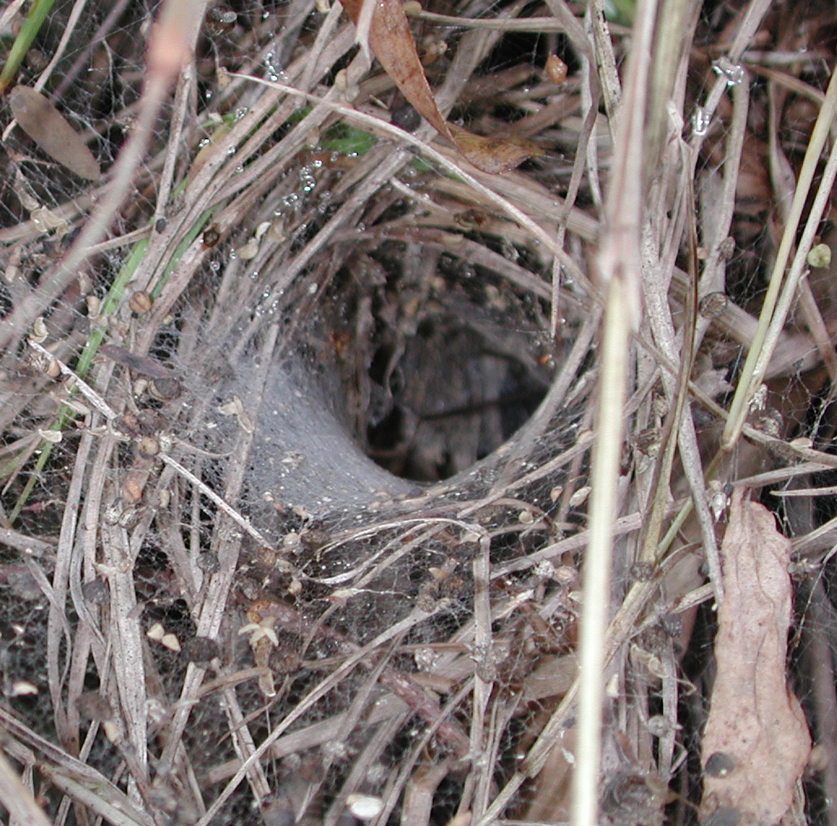 Funnel web of unknown species of spider Coastal South Carolina Image copyleft: Image taken by me, released under GFDL, Pollinator 02:05, 25 January 2006 (UTC)